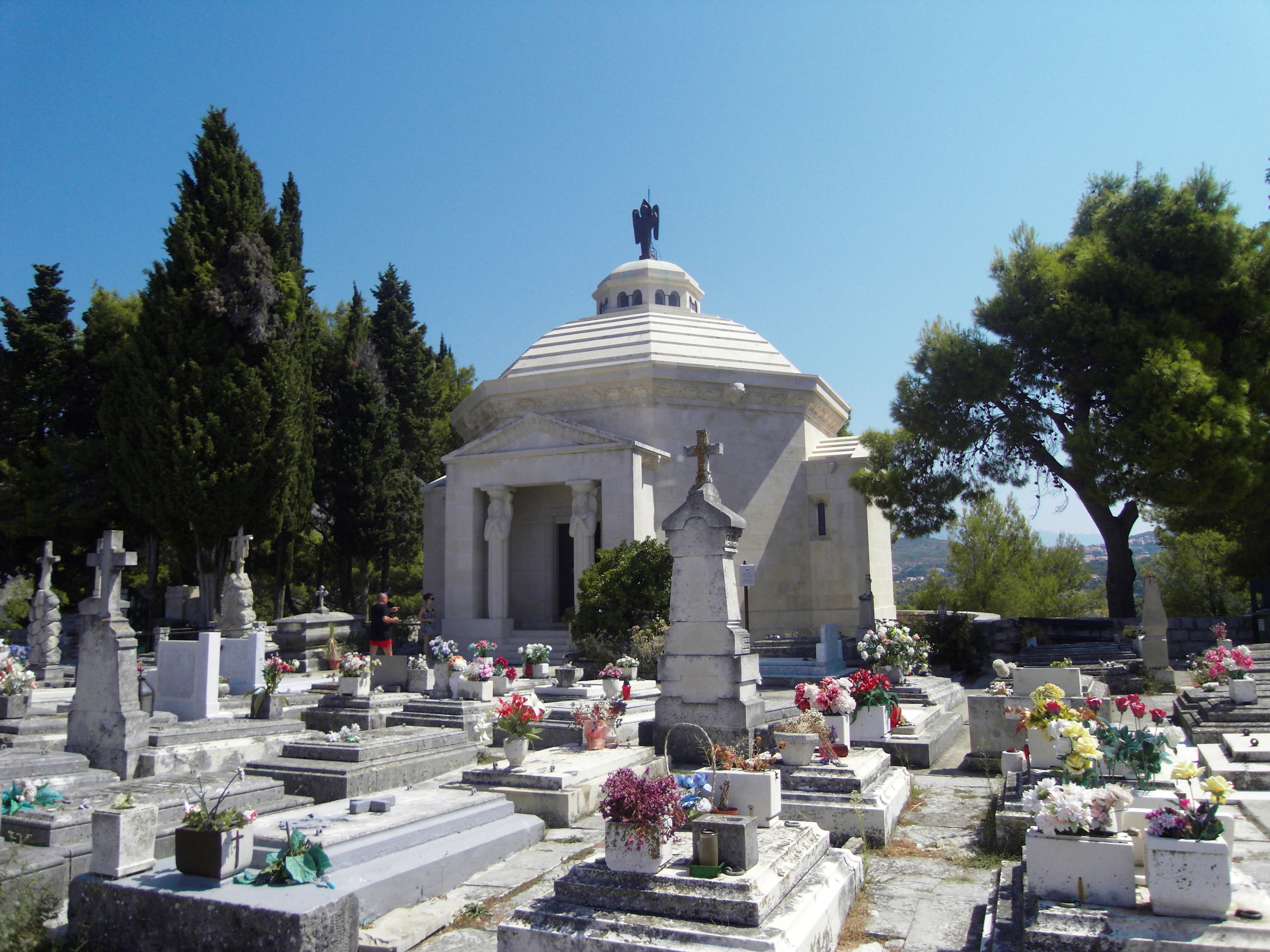 Mausoleum of Racic family, Cavtat